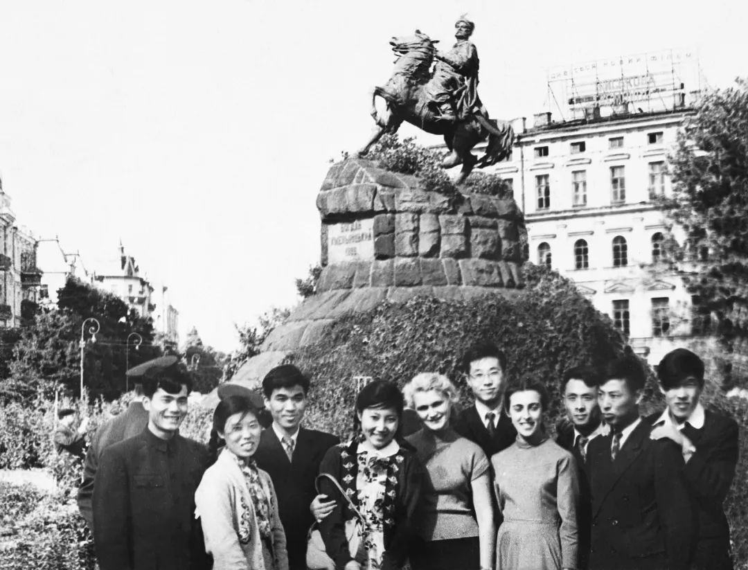 Jiang Jingshan (third person from left)at Saint Petersburg Electrotechnical University, 1957